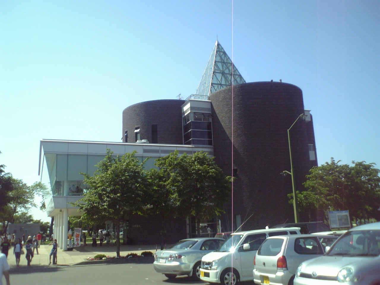 Michinoeki(Roadside Station) Maoi no Oka Park (Naganuma, Hokkaidō)